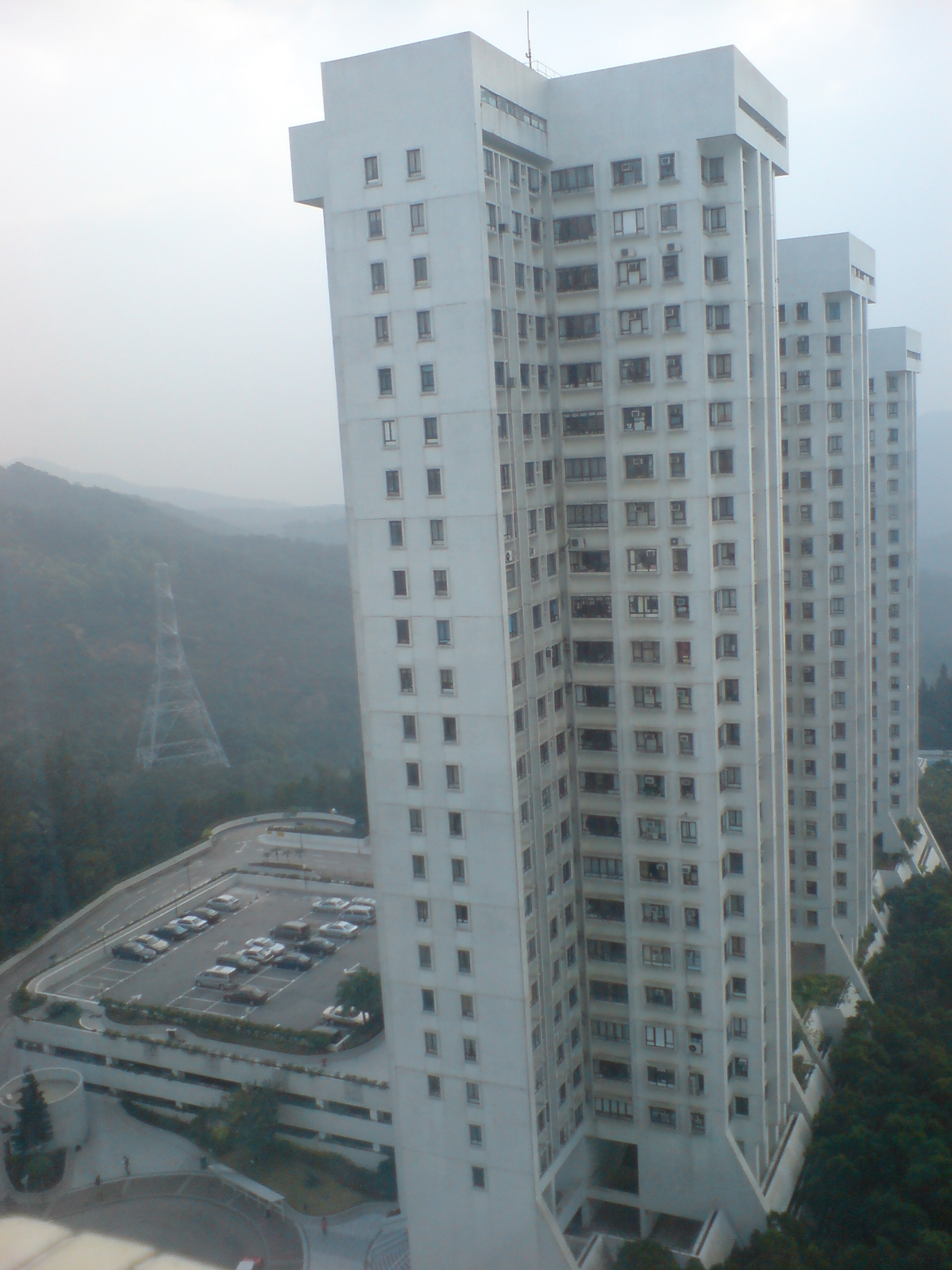 華景山莊, Wonderland Villas East Wing